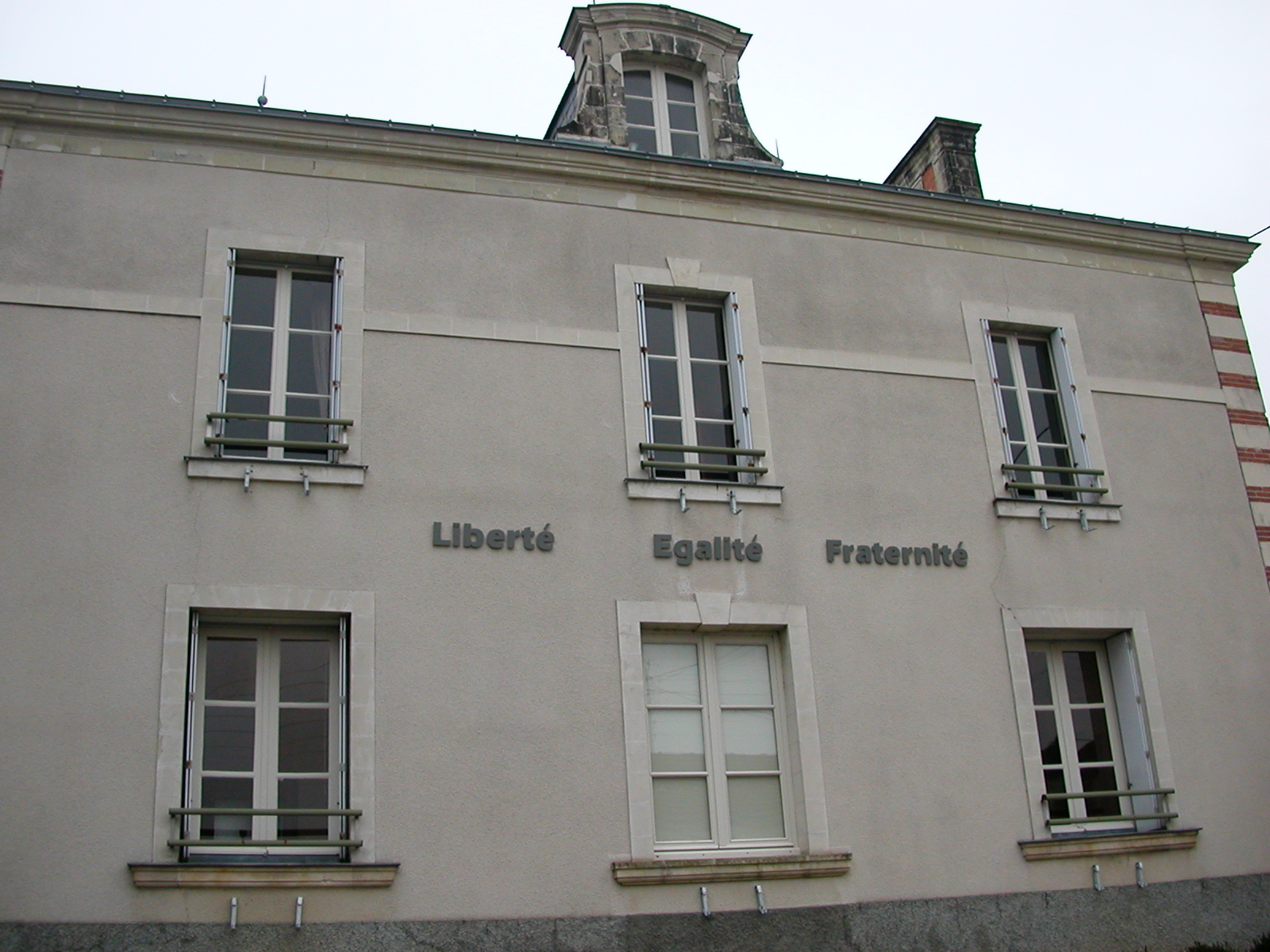 Town hall of Varades